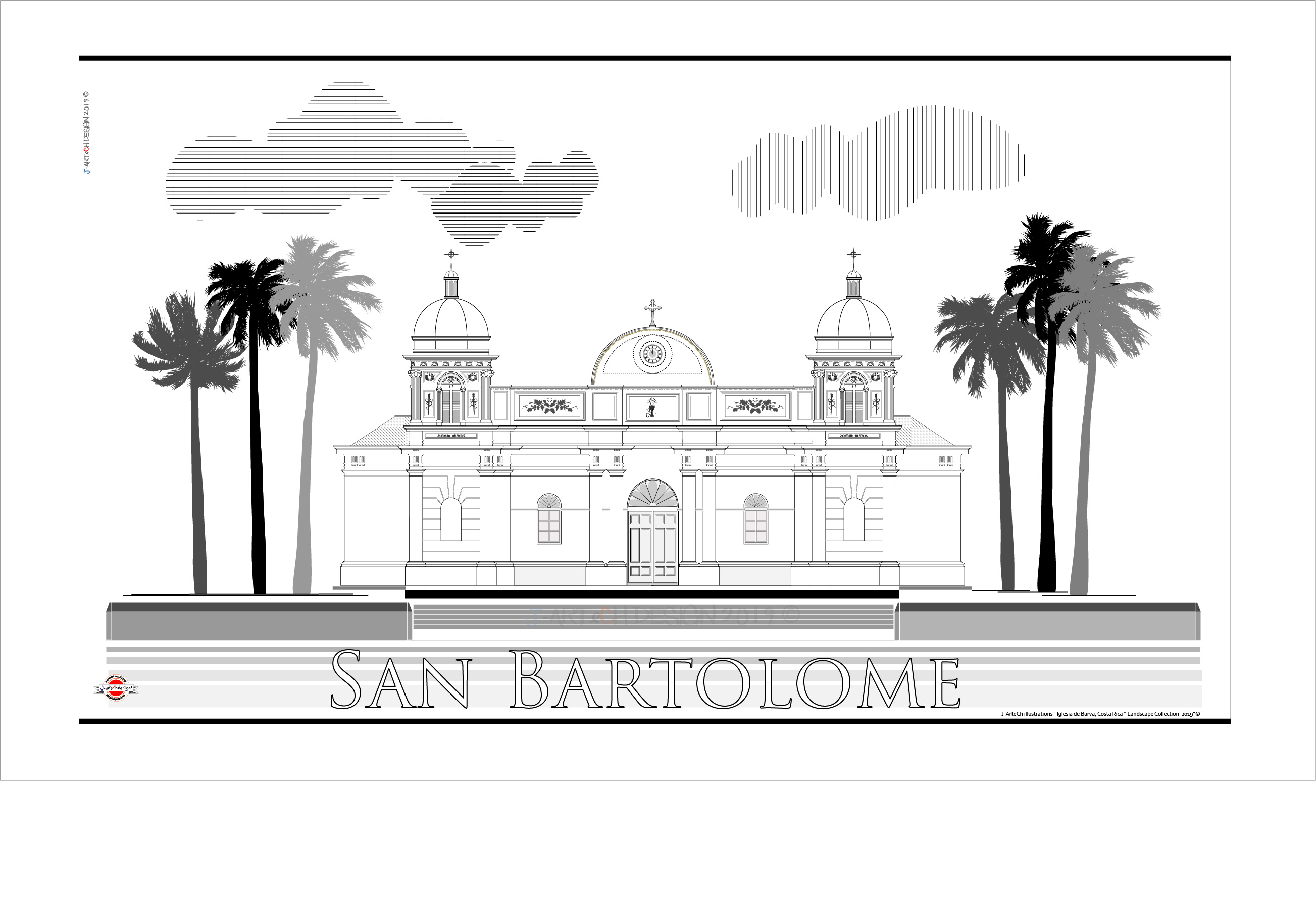 Iglesia Católica de San Bartolome Barva de heredia, Costa Rica